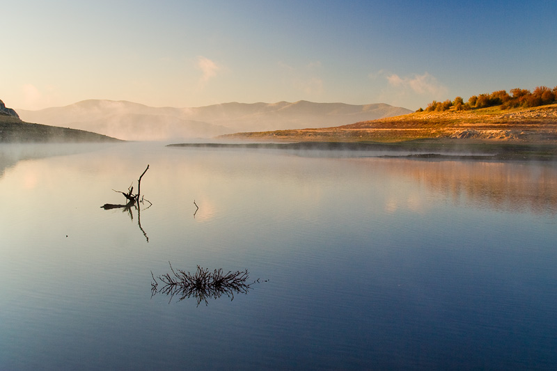 Zhrebchevo dam in South-Eastern Bulgaria.